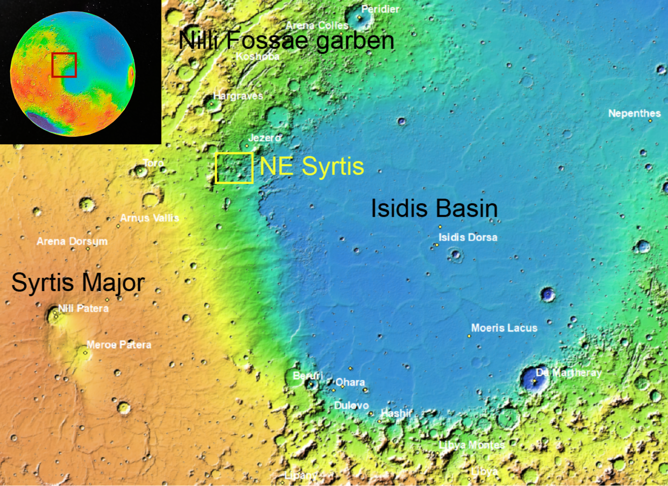 Mars NEsyrtis